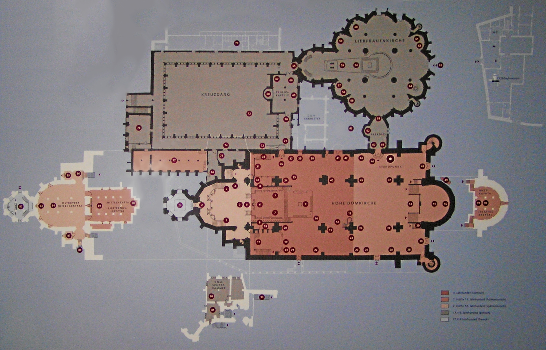 Cathedral of Trier, Rhineland-Palatinate, Germany